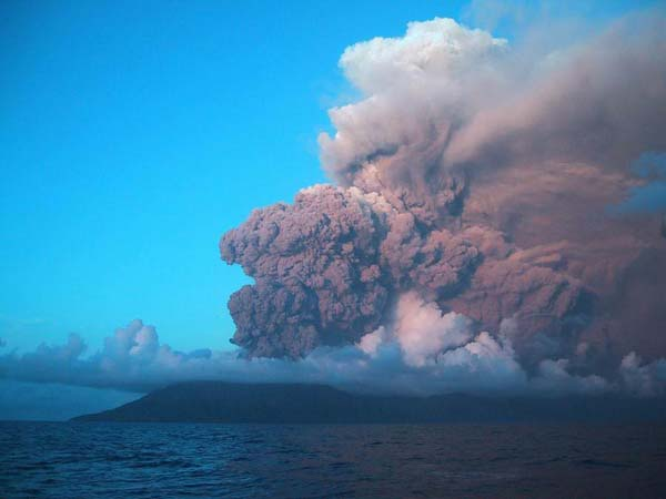 Anathan volcano eruption.